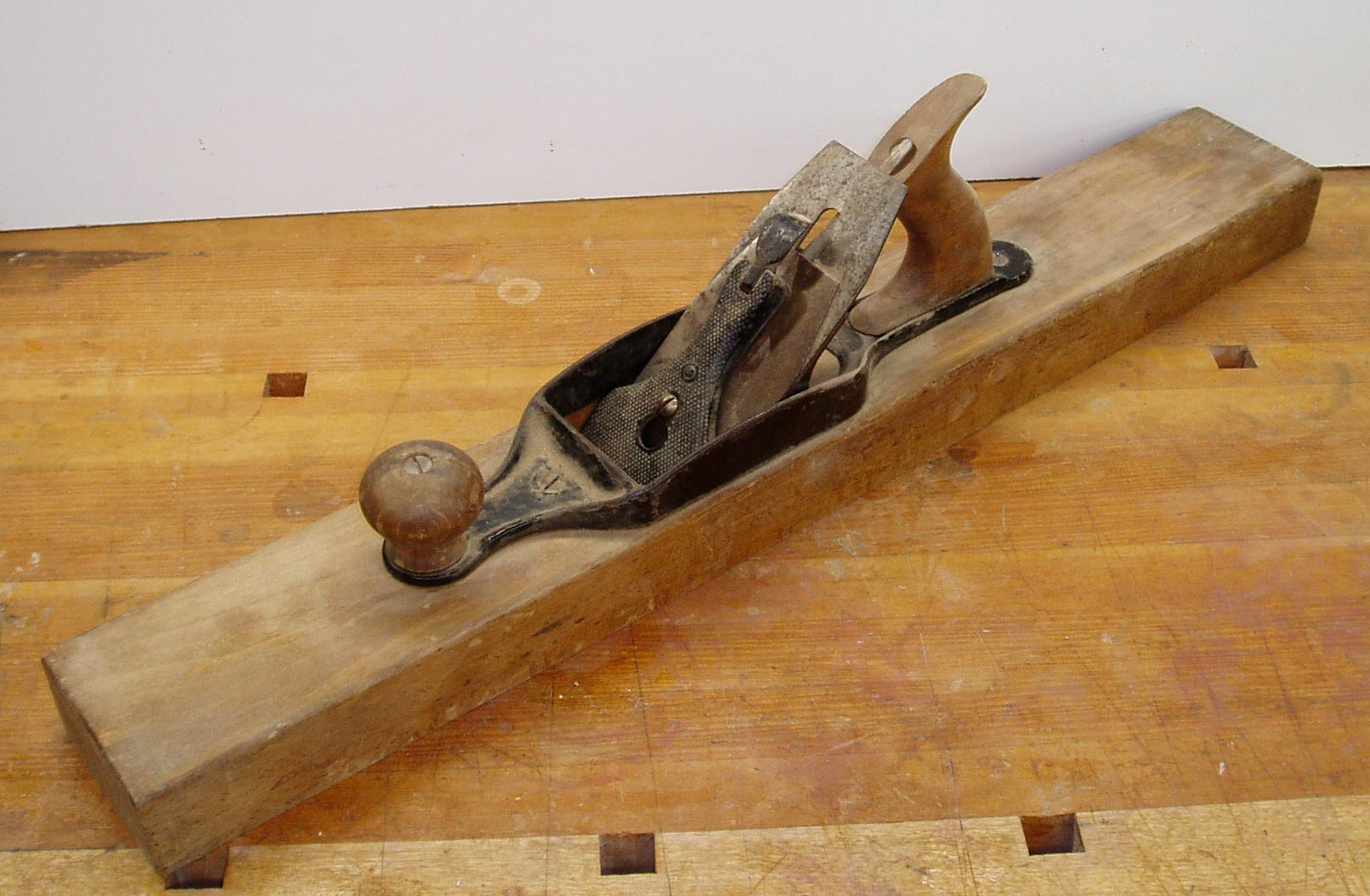 Picture of Stanley No. 32 "transitional" jointer plane (26 inches long) taken 16 October 2005 by Luigi Zanasi (myself) on my workbench using a Olympus digital camera.